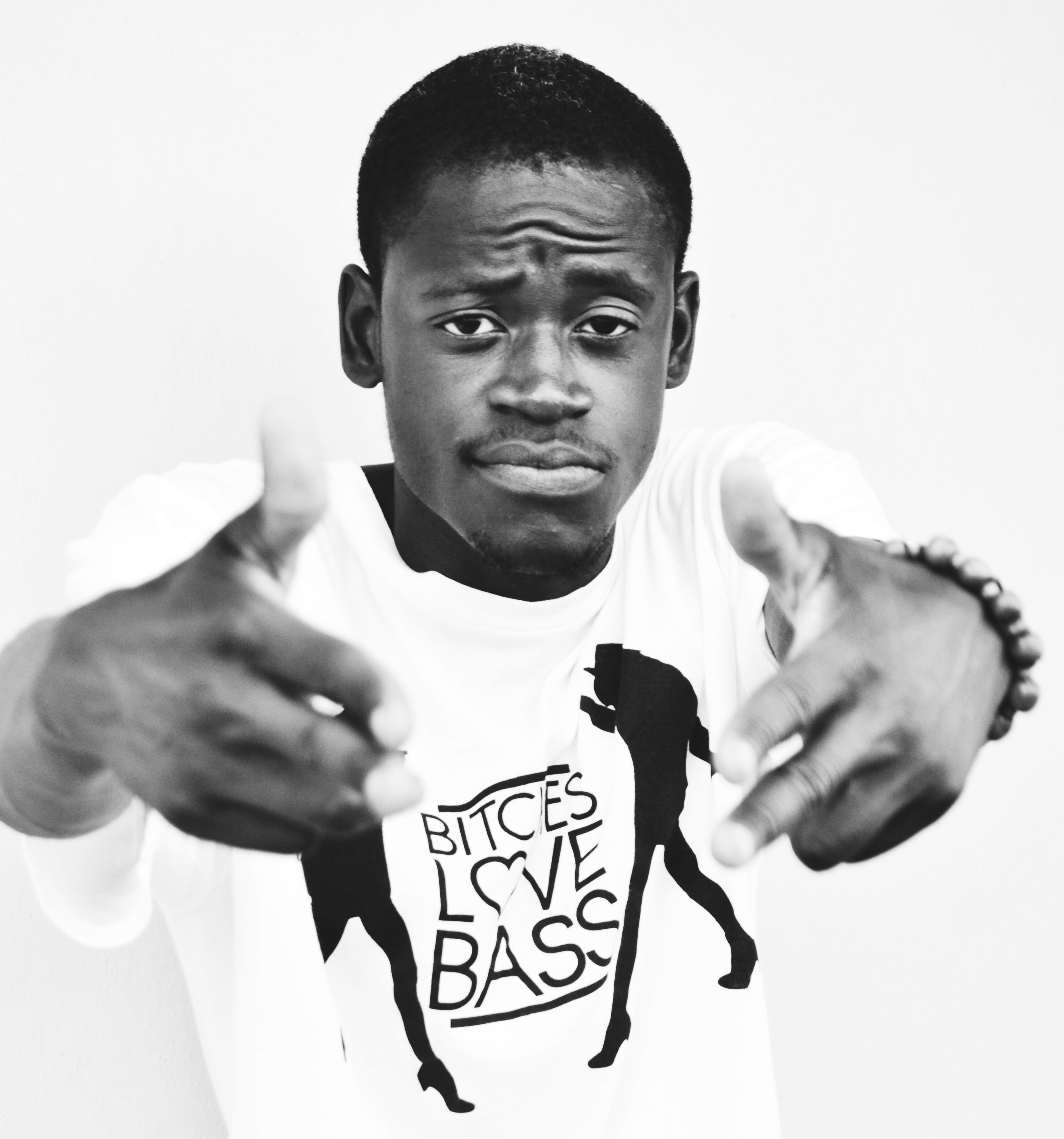 Eazy was shooting the video of his single Prodigal Son which is his first ever official video.